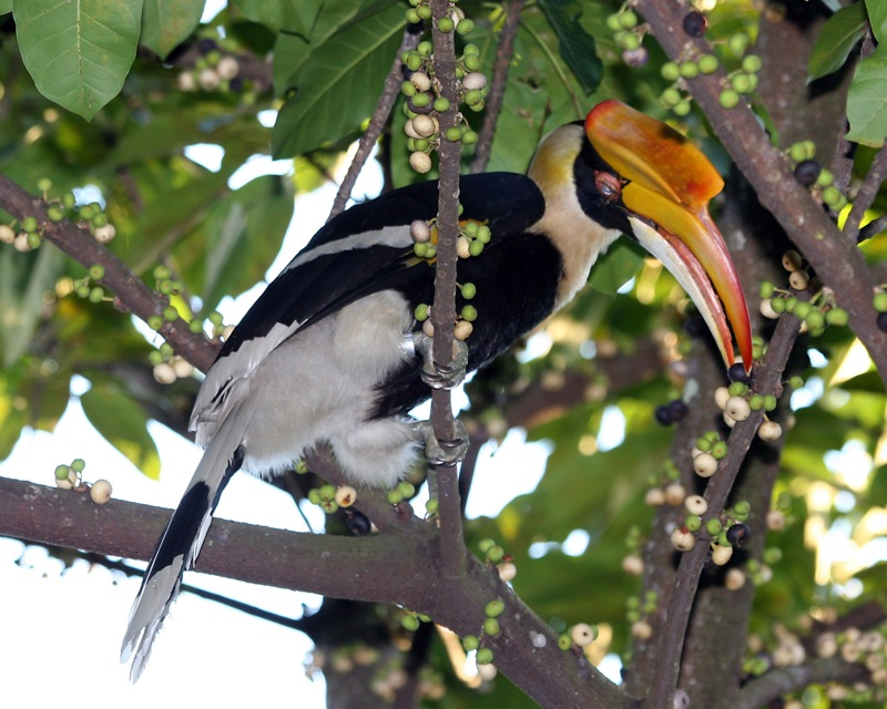 Great Hornbill (Buceros bicornis) also known as Greater Indian Hornbill or Two-horned Calao in the Botanic Garden, Singapore. Photo 7 November 2005. Seen taking great care, choosing only the ripe fruits from a Sea Fig tree, Ficus superba. This is a much photographed escapee from the Jurong Bird Park. The tag on her right foot is the tell tale sign. Her large size indicates that she may have originally come from India as the Malaysian and Thai birds are generally smaller.